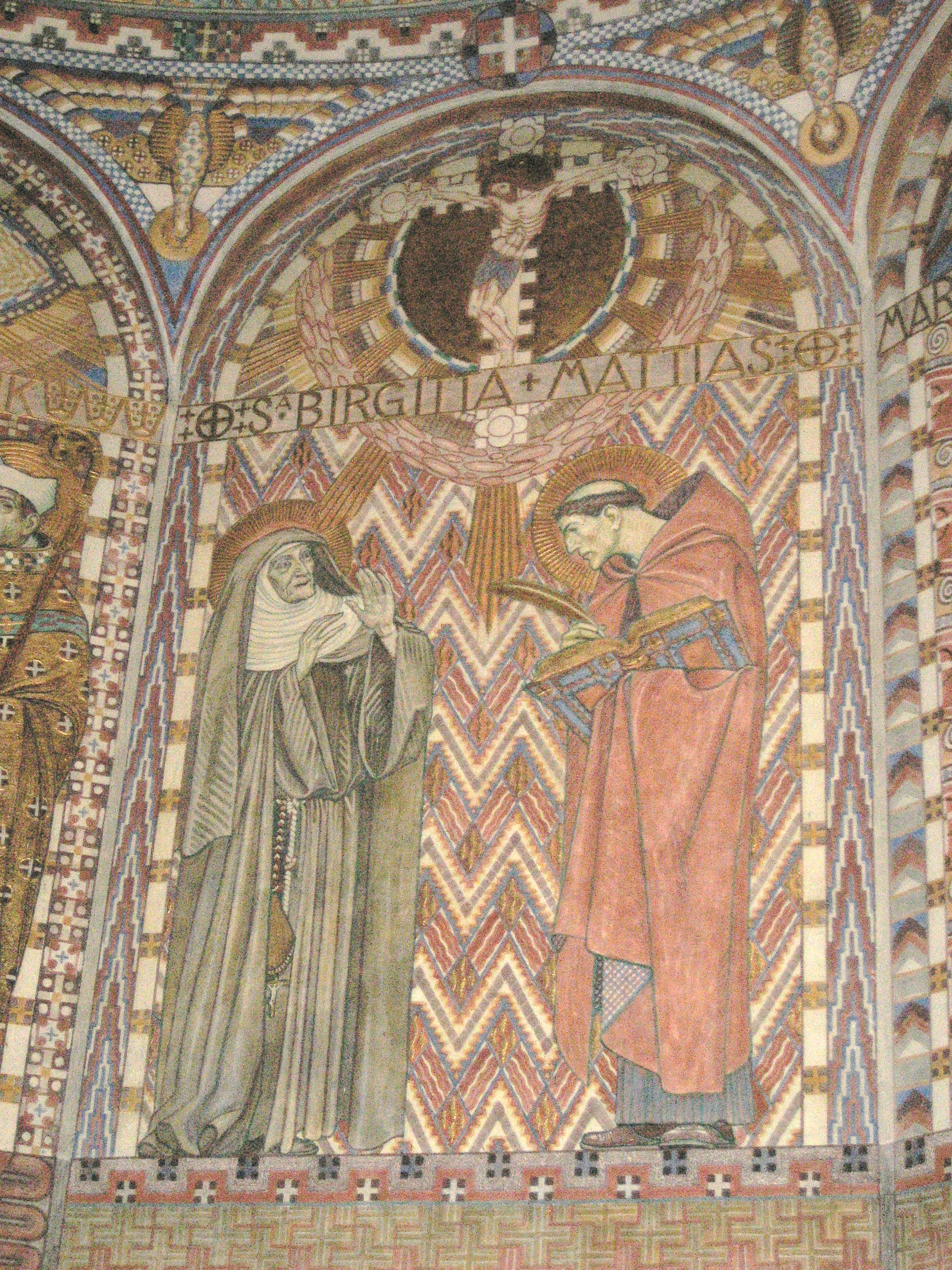 Uppenbarelsekyrkan, Saltsjöbaden, Stockholm County, Sweden. Sanctuary. Painting of Saint Bridget and Saint Matthew by Olle Hjortzberg.